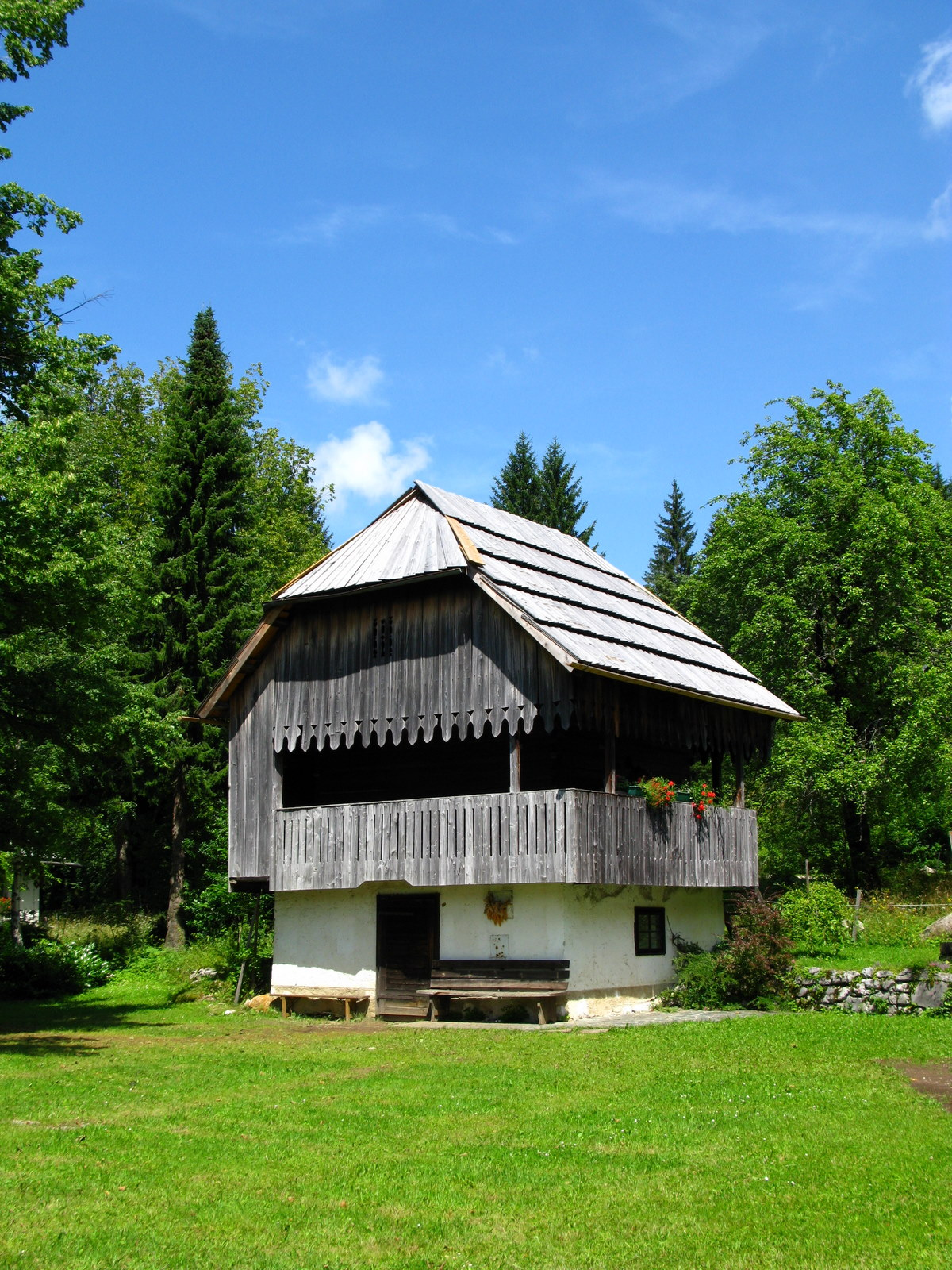 Garner in Troegern (Korte) in the Troegern canyon in the community Eisenkappel-Vellach, district Völkermarkt, Carinthia, Austria, European Union.